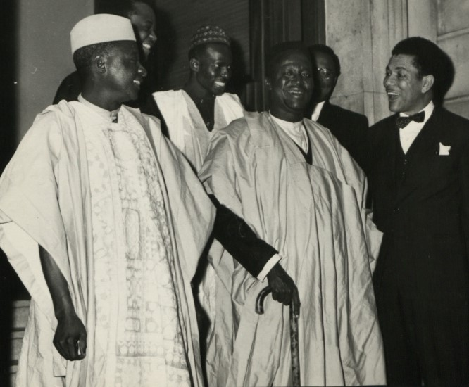 R-L Chief Arthur Prest, Sir Kashim Ibrahim, Sir Abubakar Tafawa Balewa- Prime Minister. Guess date as 1955 Description: On the steps of Nigeria House, Sir Kashim enjoys a joke with some of his country's London representatives. Location: London, Nigeria Our Catalogue Reference: Part of CO 1069/82